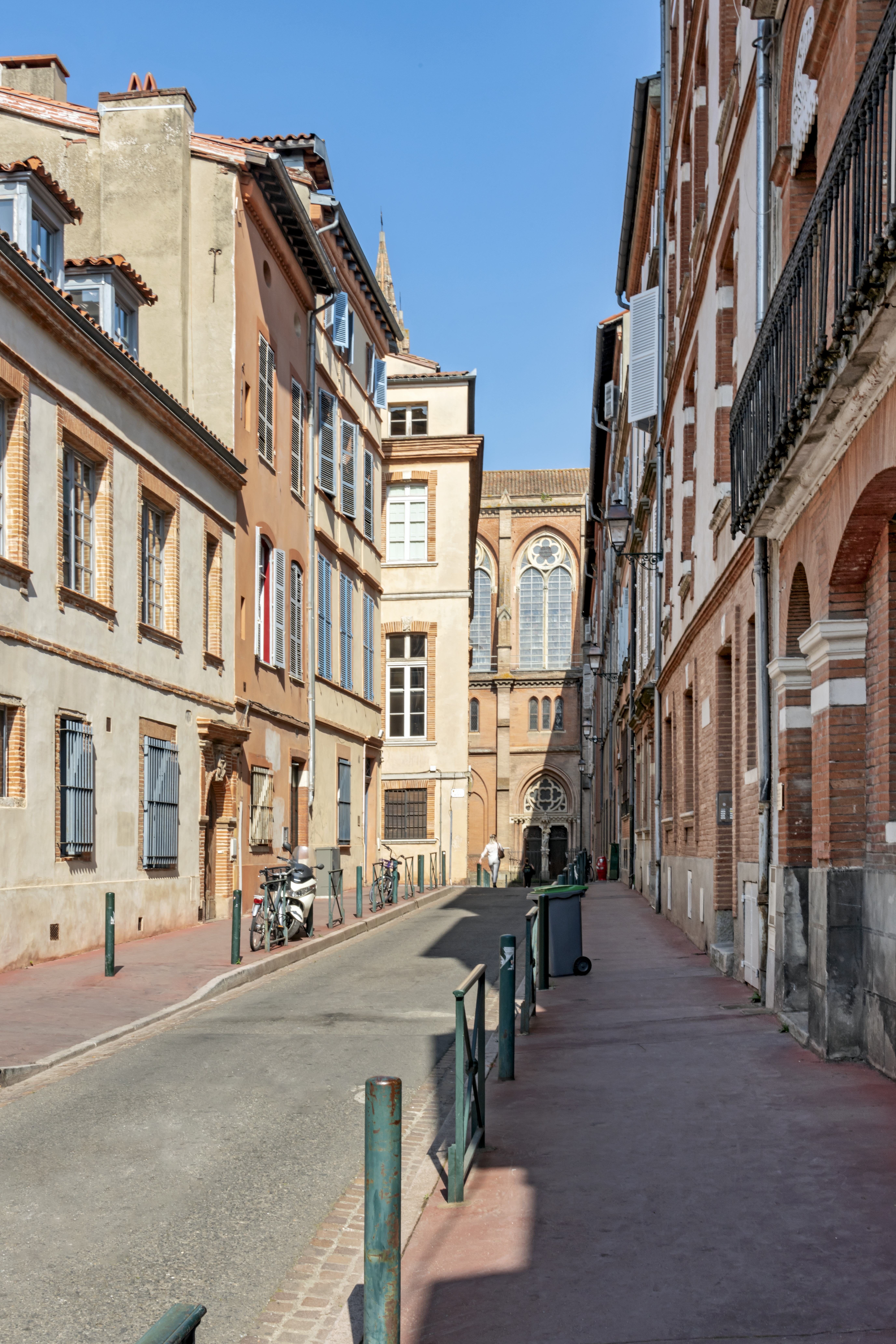 Rue des Fleurs in Toulouse. At the bottom Church du Gésu